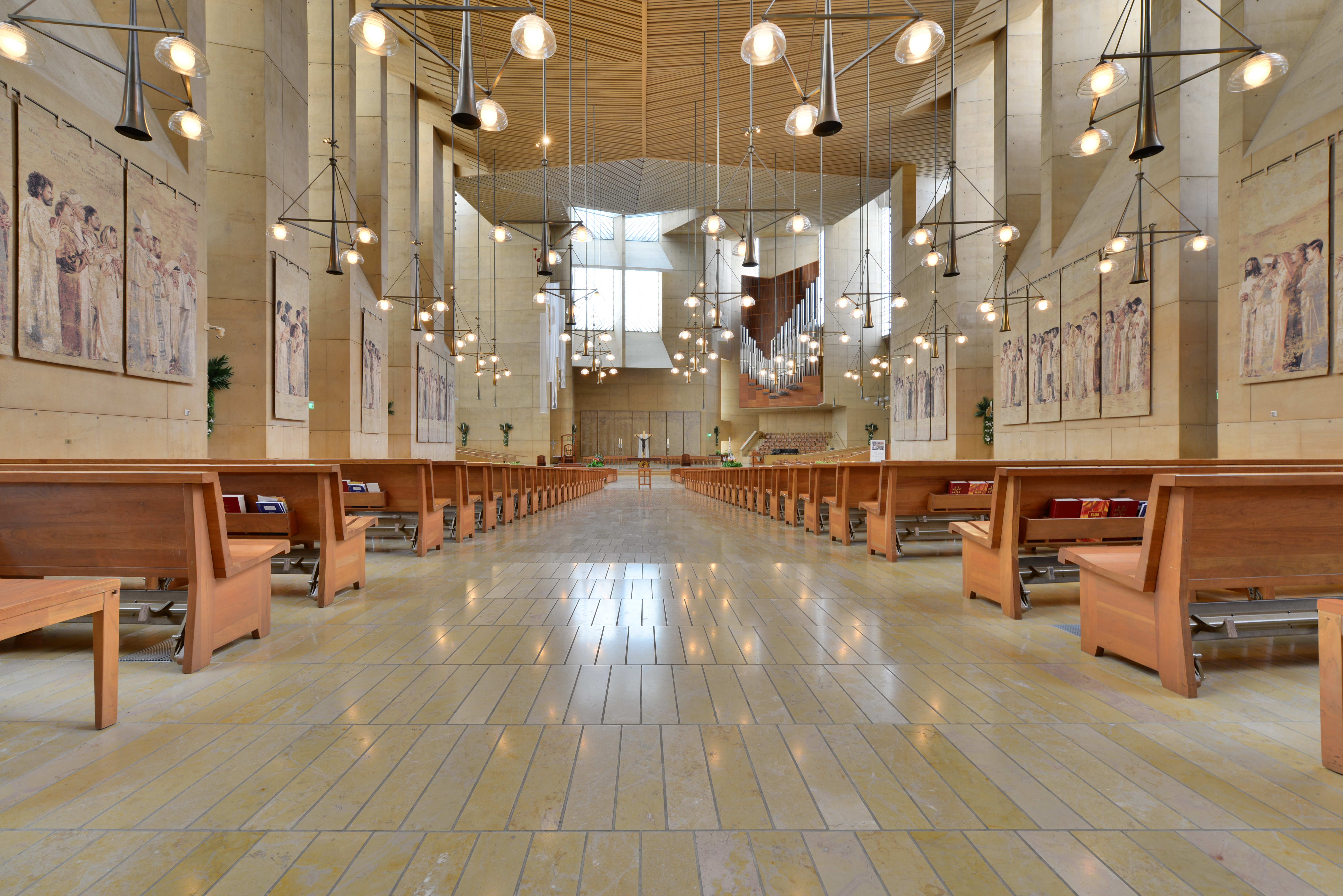 Interior of Cathedral of Our Lady of the Angels